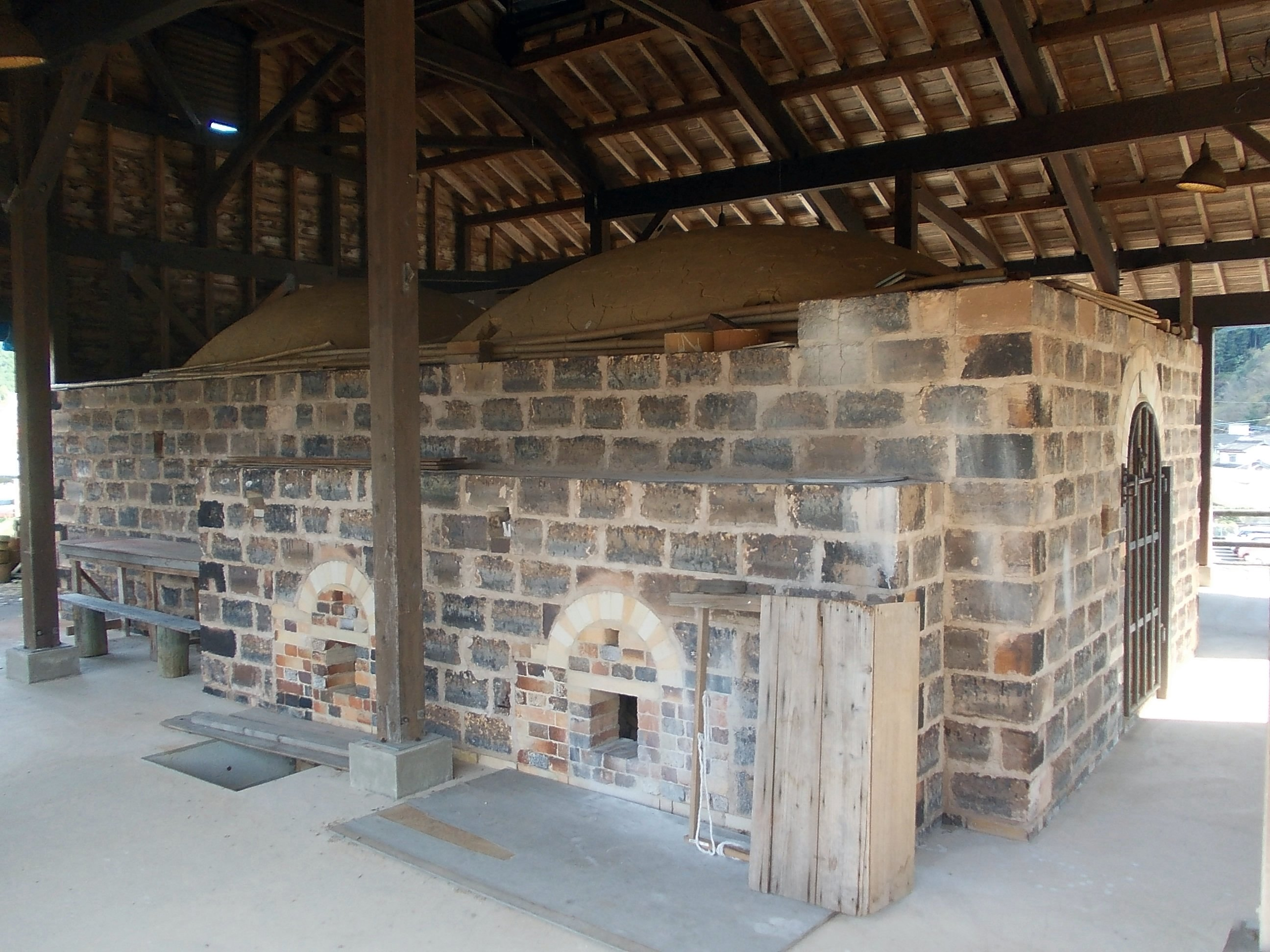 Ceramics Park Hasami